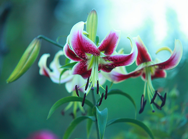 Lilium 'Sheherazade'